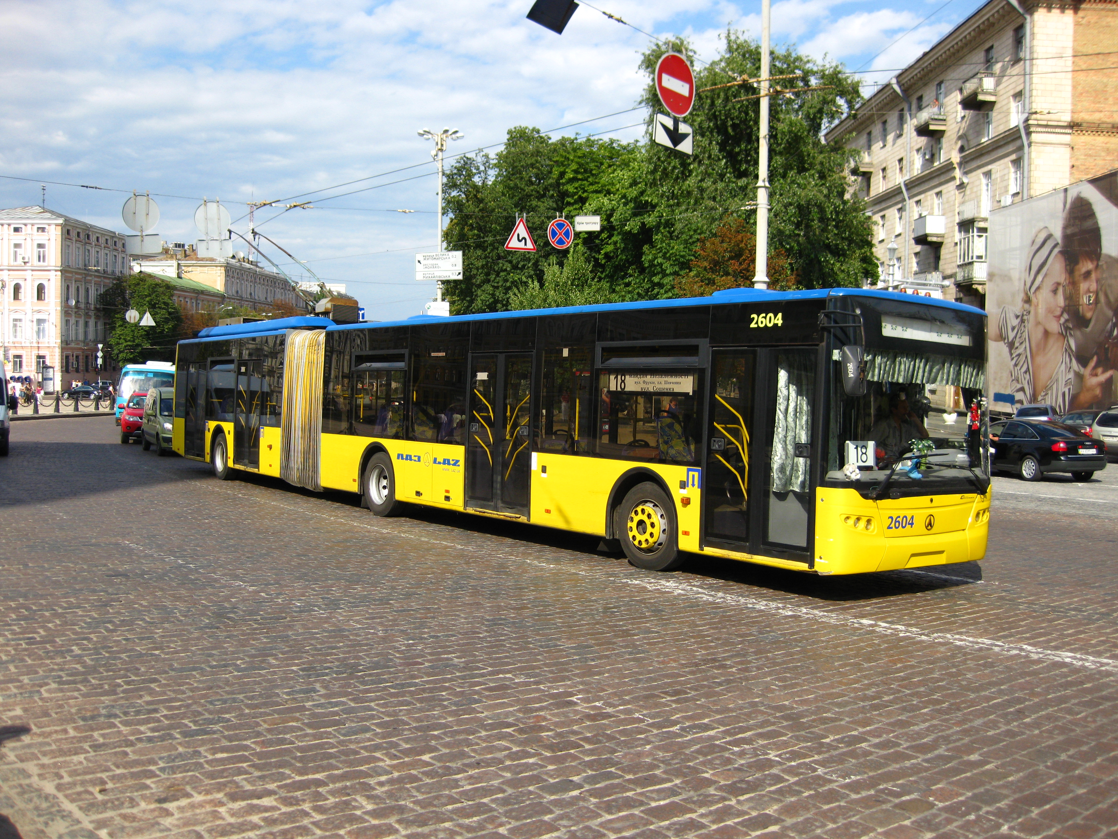 Trolleybus LAZ E301 in Kyiv